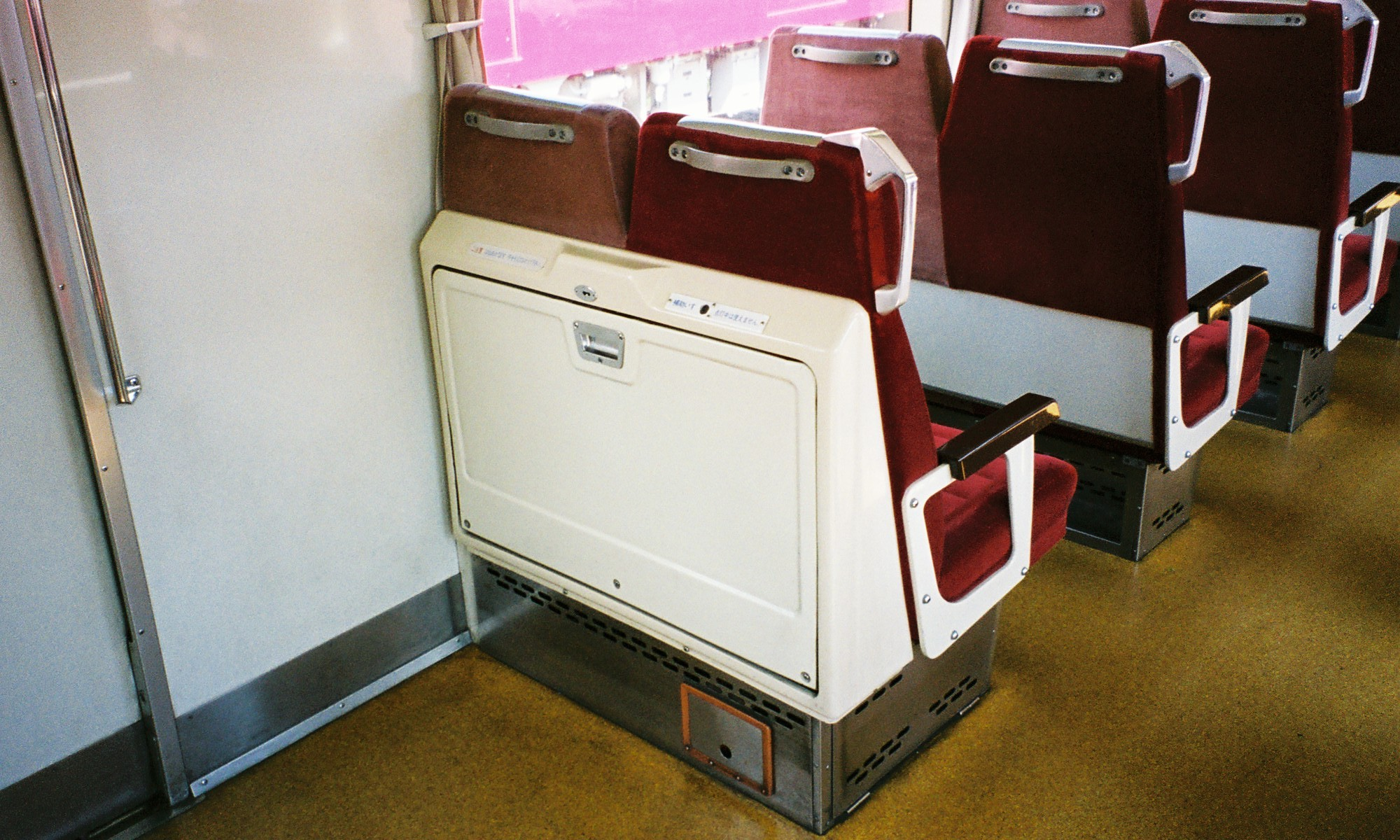 Keihin Electric Express Railway,2000 series 2doors,seat.